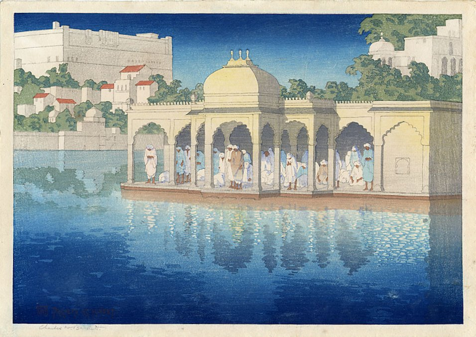 Prayers at Sunset, Udaipur, India, woodblock print by Charles W. Bartlett, 1919, Honolulu Academy of Arts